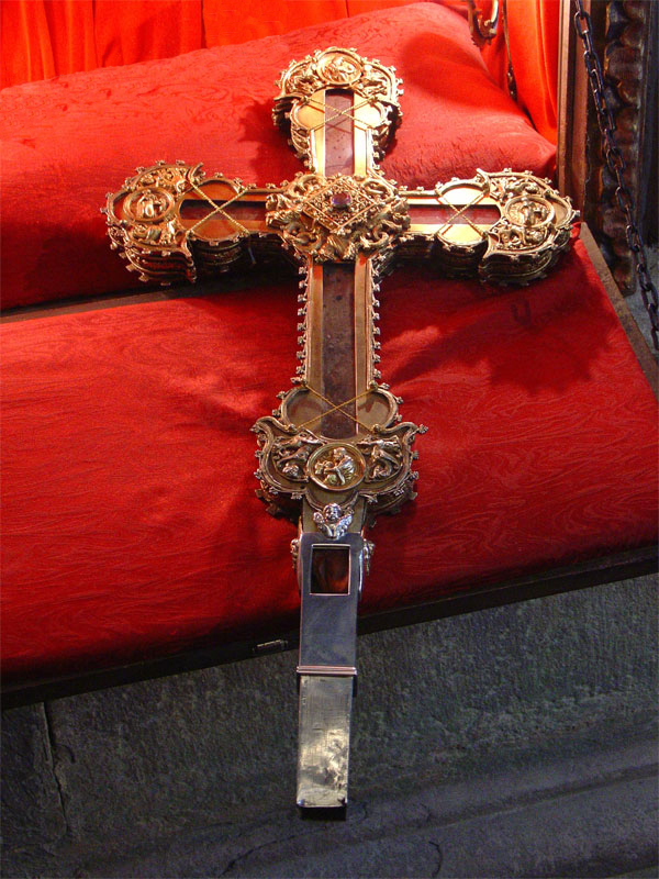 The Ligum Crucis ("wood of the Cross") from the Monastery of Santo Toribio de Liebana, considered by the Catholic Church to be the largest surviving piece of the cross upon which Christ was crucified.